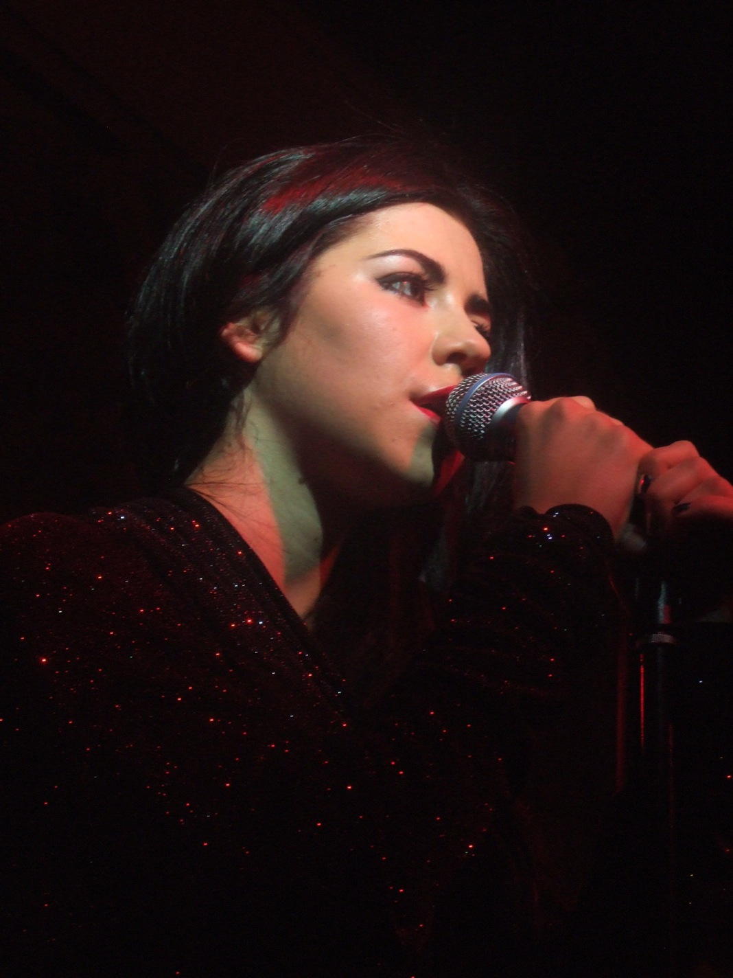 Marina and the Diamonds performing on "The Family Jewels Tour" at The Deaf Institute in Manchester, United Kingdom.